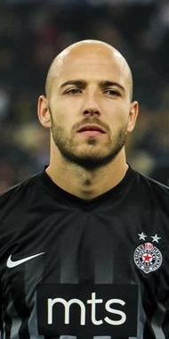 Nemanja R. Miletić lining up for Partizan before a game against Dynamo Kyiv in December 2017